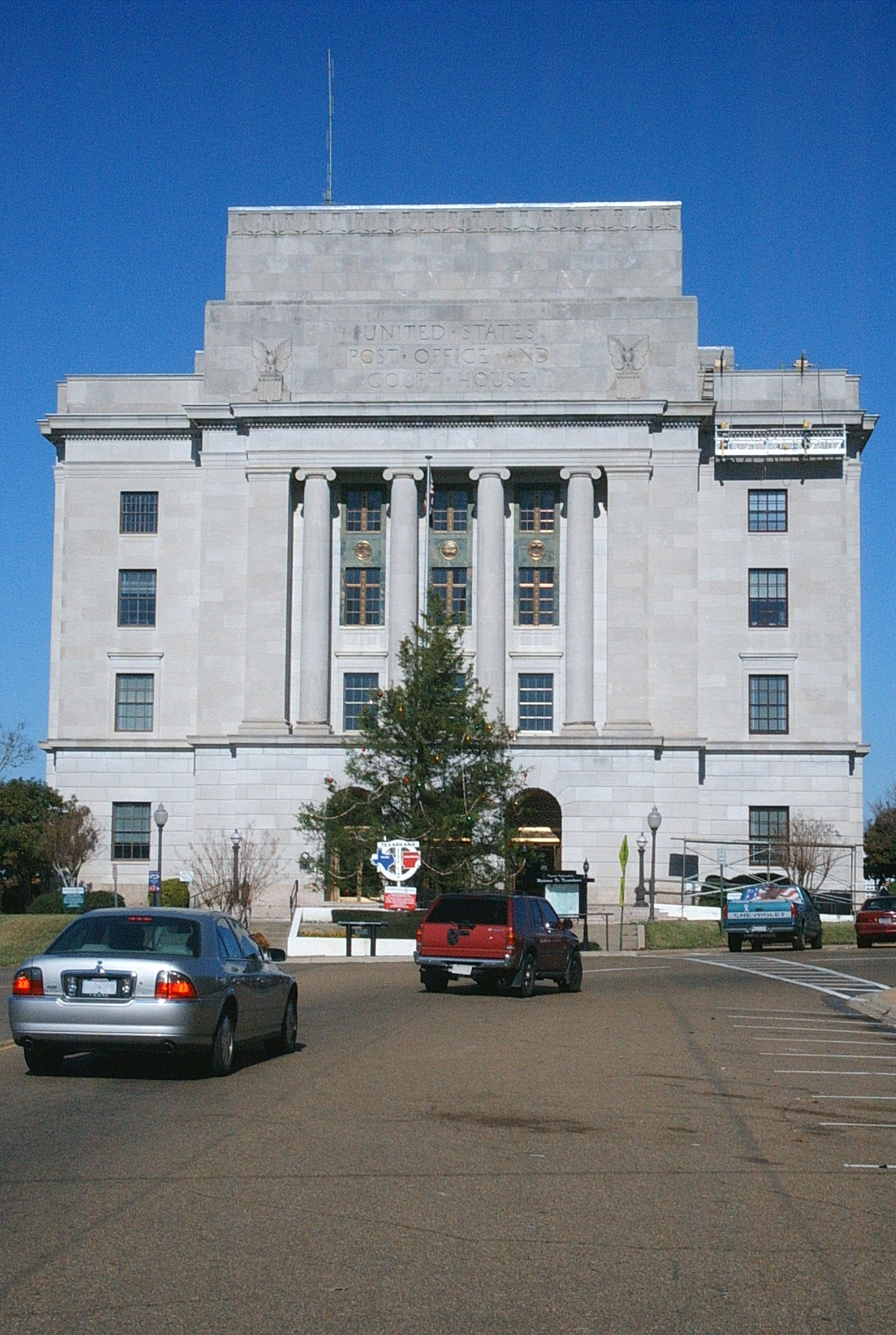 State Line Avenue (in Texarkana, U.S.A.) splits, forming a median in which a federal courthouse/post office complex is located. This is the only U.S. federal government building to physically be in two states (Texas and Arkansas). The northbound lane is in Arkansas, circling the right (east) side of this building, while the southbound lane is in Texas, circling the left (west) side of the building.